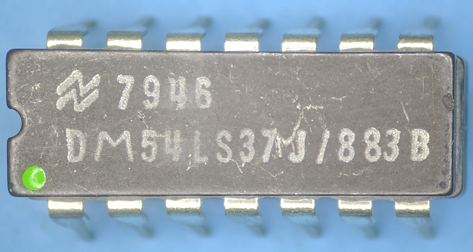 Package top of a National Semiconductor 54LS37 chip, datecode 7946.